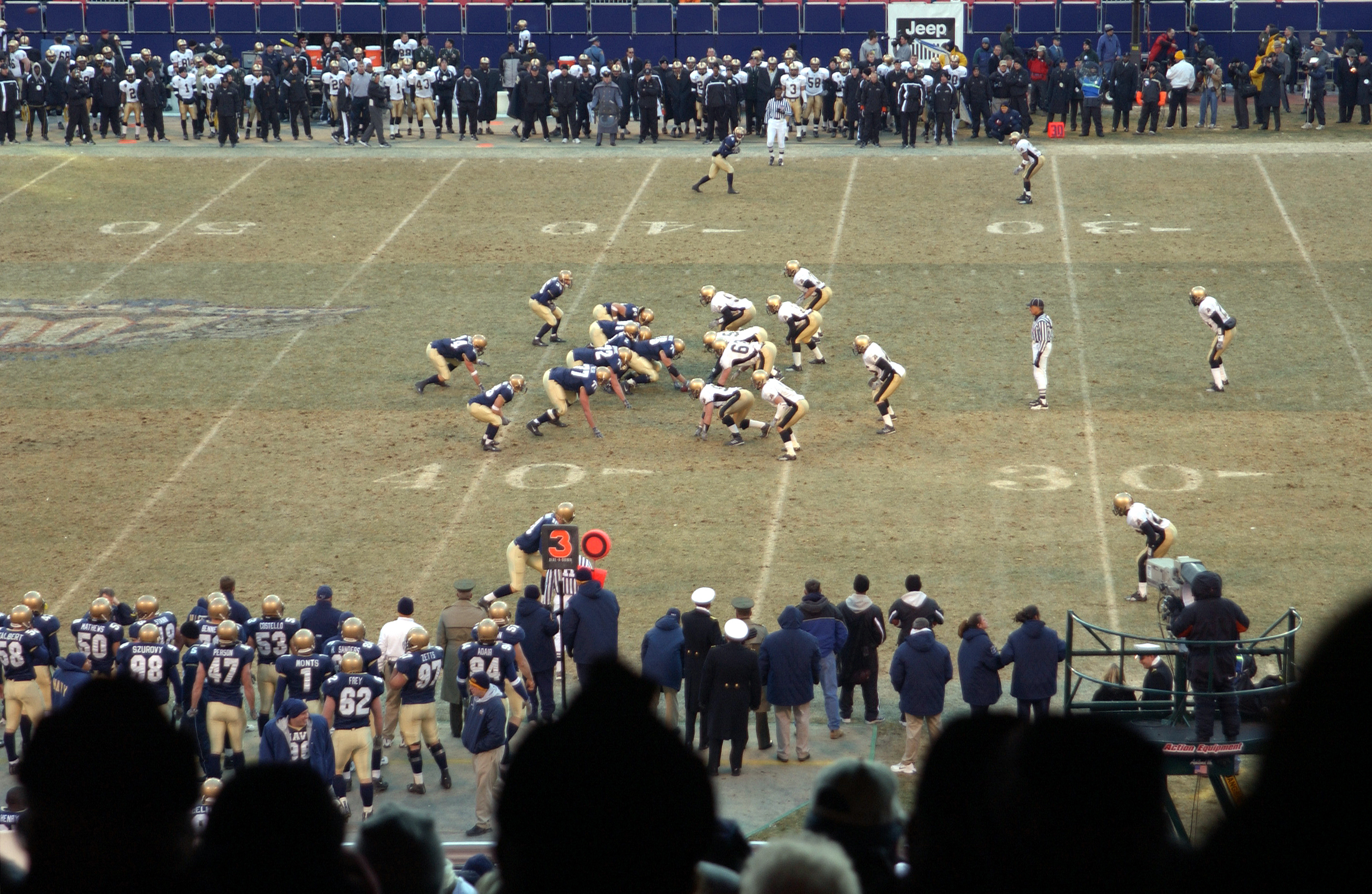 021207-N-2383B-682 East Rutherford, N.J. (Dec. 7, 2002) -- The U.S. Navy Midshipmen offensive line prepares to drive forward as they dominate the playing field against the Army's Black Knights. With Quarterback Craig Candeto from Orange City, Fla., at the helm, the Midshipmen set a record 421 rushing yards with a crushing 508 yards of total offense. This historic rivalry in college football was set in Giants Stadium this year for the 103rd meeting between the two service academies that dates back to 1890. Navy beat Army by an unprecedented, lop-sided score of 58-12. U.S. Navy photo by Chief Photographer's Mate Johnny Bivera. (RELEASED)